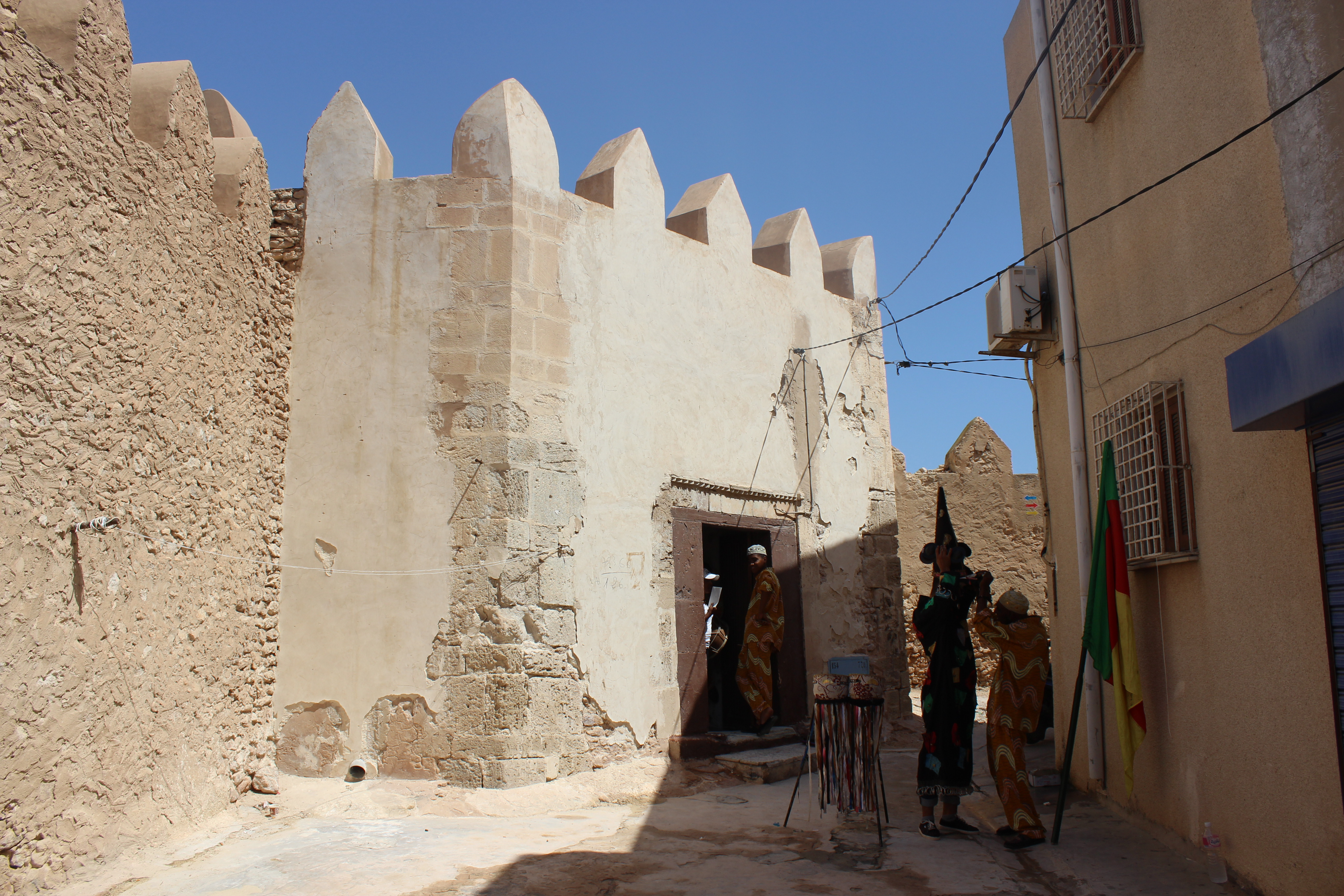 Borj Messaouda or Borj Lella Essamra in the eastern district of the medina of Sfax